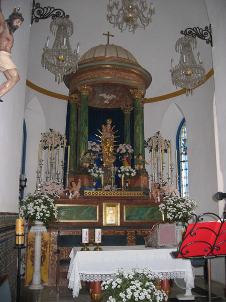 Nuestra Señora de Linares Sanctuary, in Córdoba (Spain).